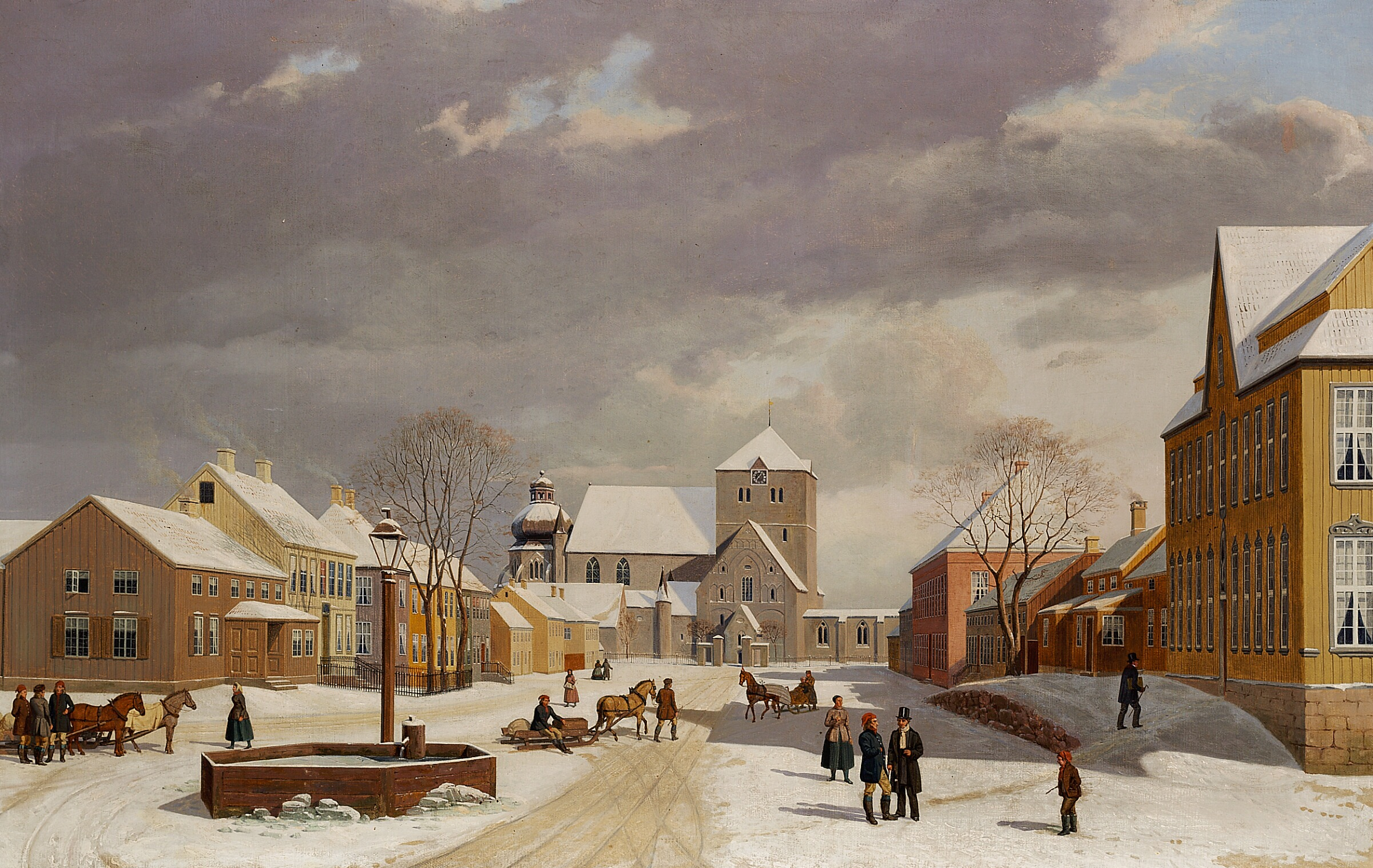 Tegner made a sketch of the street view in 1835. When he got around to making this painting in 1861, the view had already changed, for instance there was a new roof on the Harmonien building to the right.